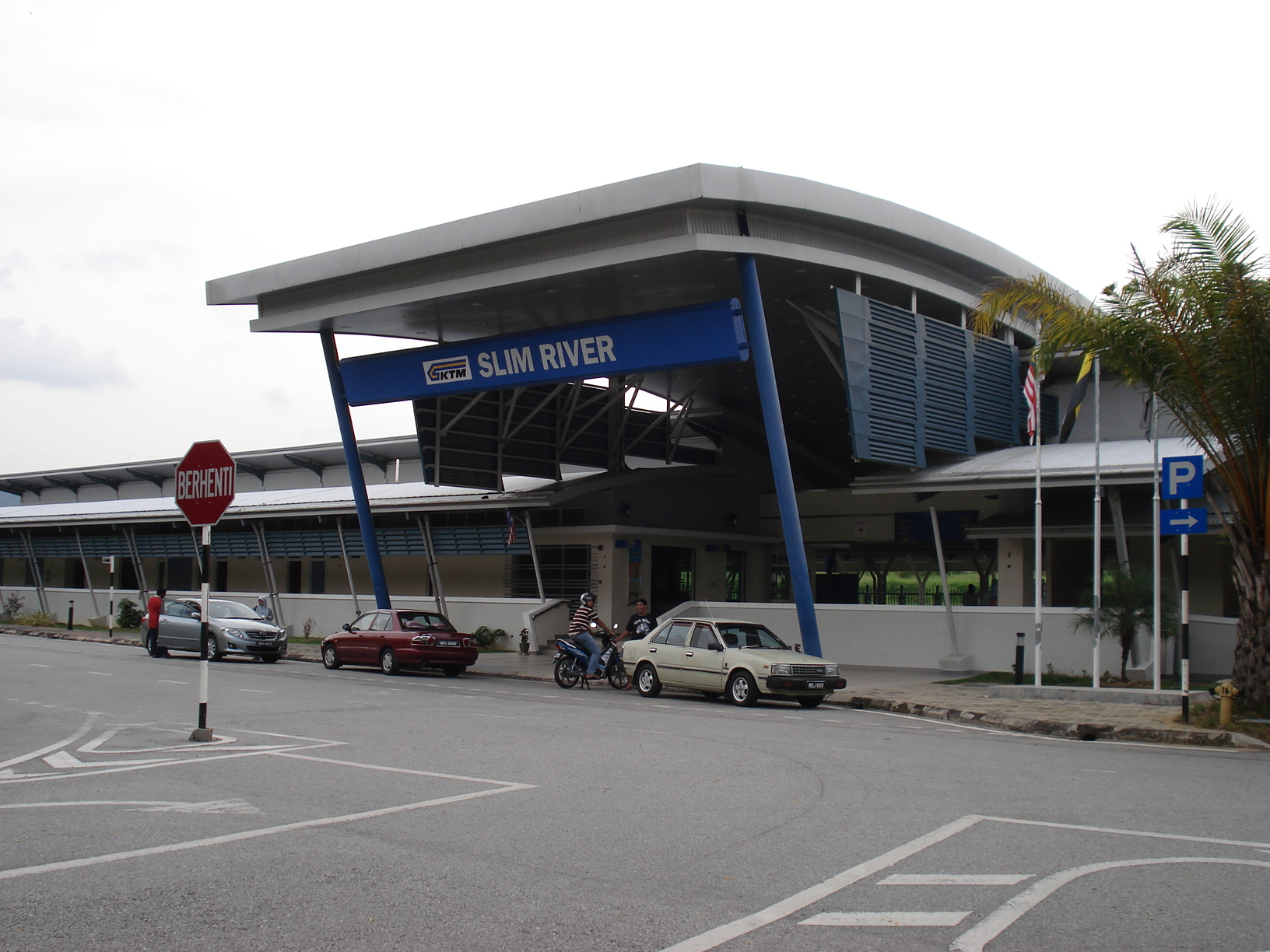 Front view of Slim River railway station